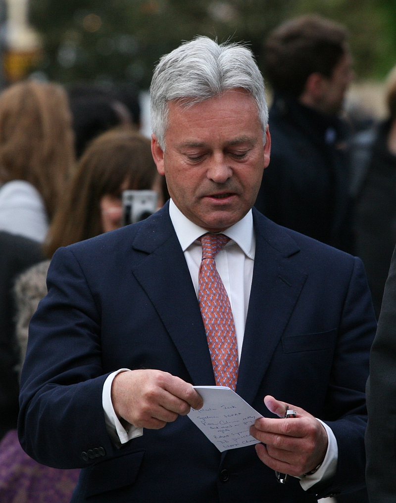 Conservative MP Alan Duncan in Westminster.